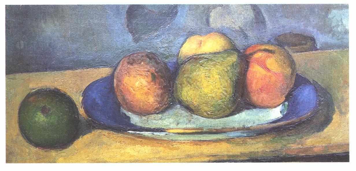 Still life